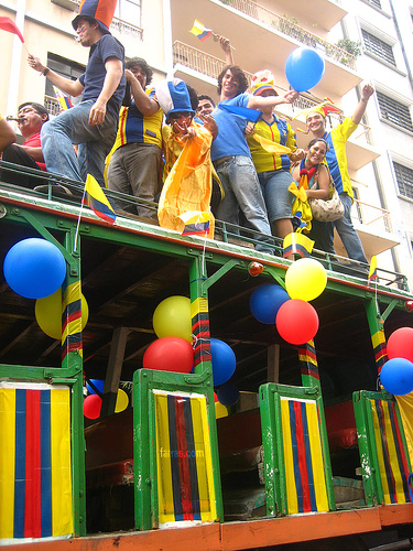 People on a Chiva in Guayaquil, Ecuador.